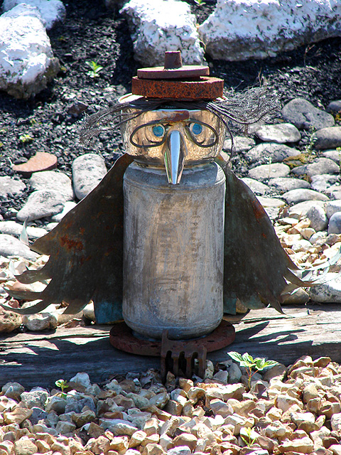 Junk Art at Havenstreet One of a set of wonderful 'junk' art sculptures at Havenstreet Station.